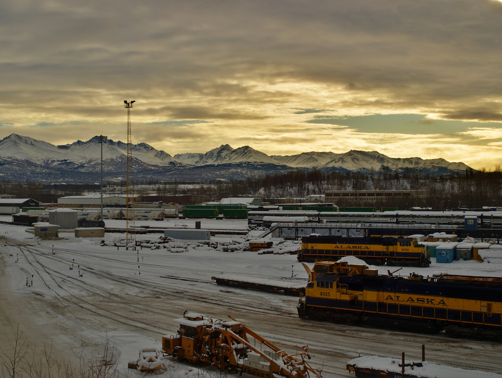 Gouge yer eyes out, greenest...